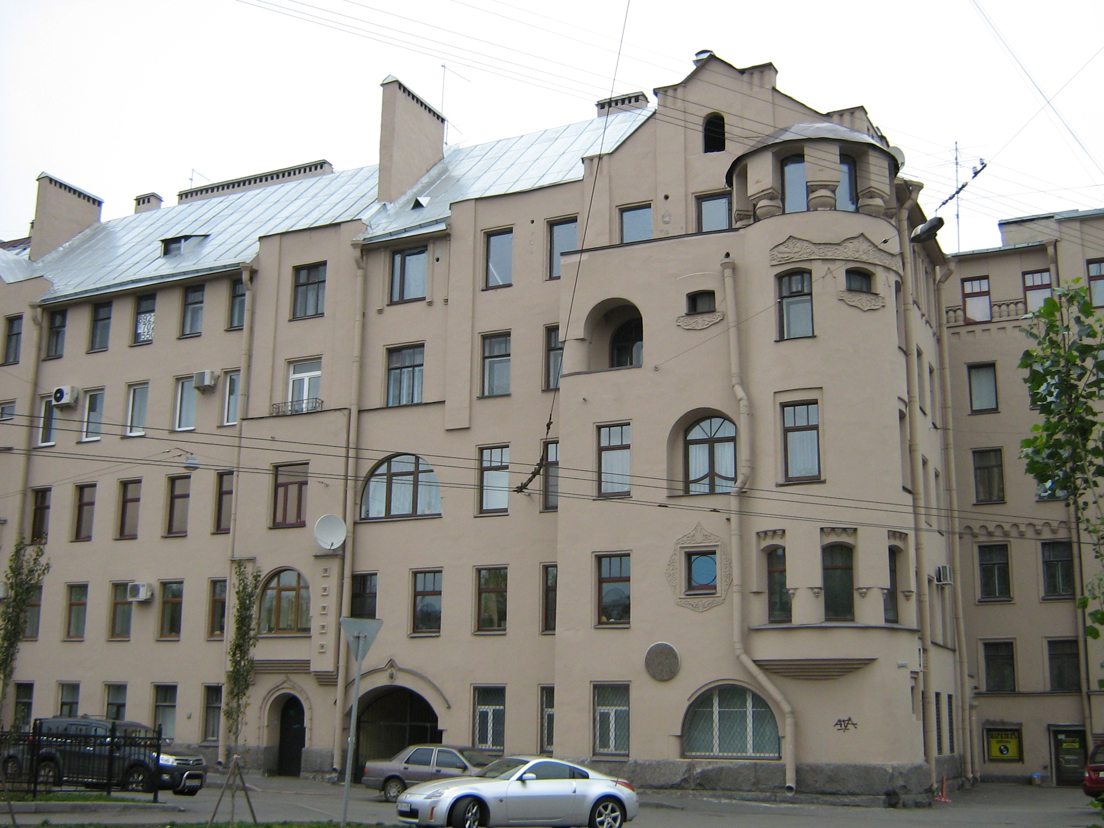 2, Plutalova Street, Saint-Petersburg, Russia. Architecy Alexander Lishnevskii, 1911-1913.